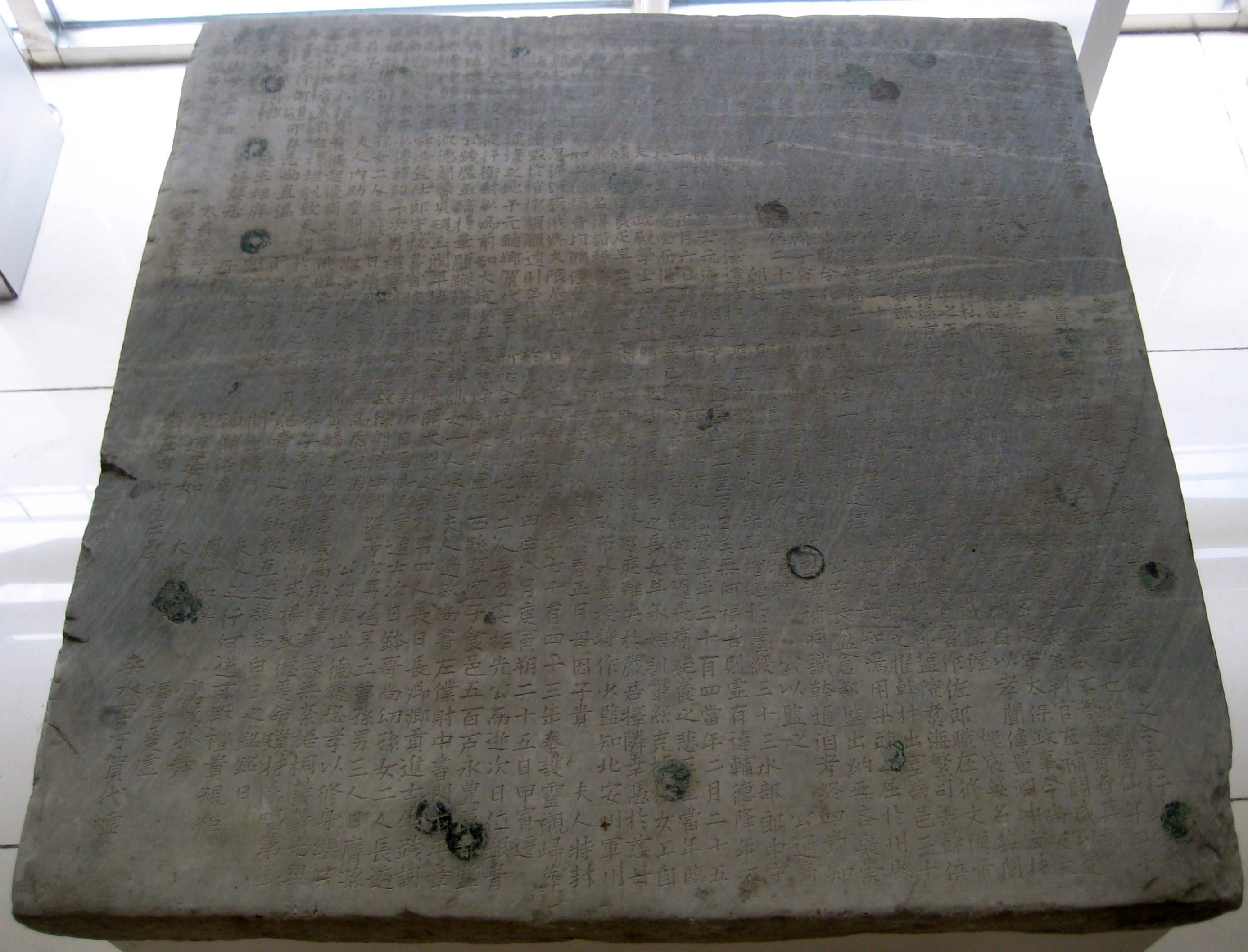 Memorial tablet in Chinese of Li Jicheng (d.1005) and his wife (the eldest daughter Ma Dechen). Liao Dynasty (916-1125). From a tomb discovered off Fengtai Road in Beijing, in 2000.